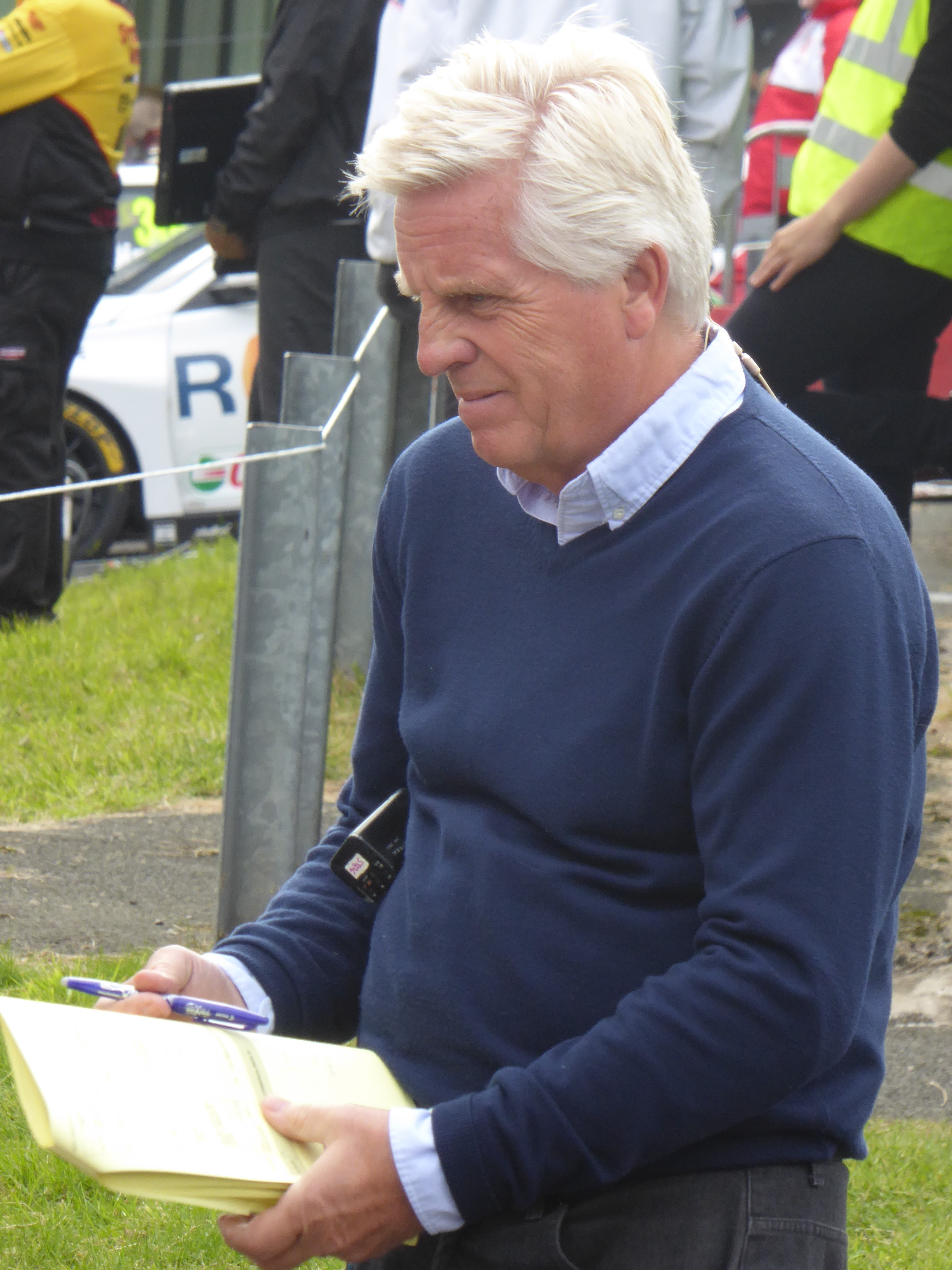 Steve Rider (ITV Sport), at the Knockhill round of the 2017 British Touring Car Championship.